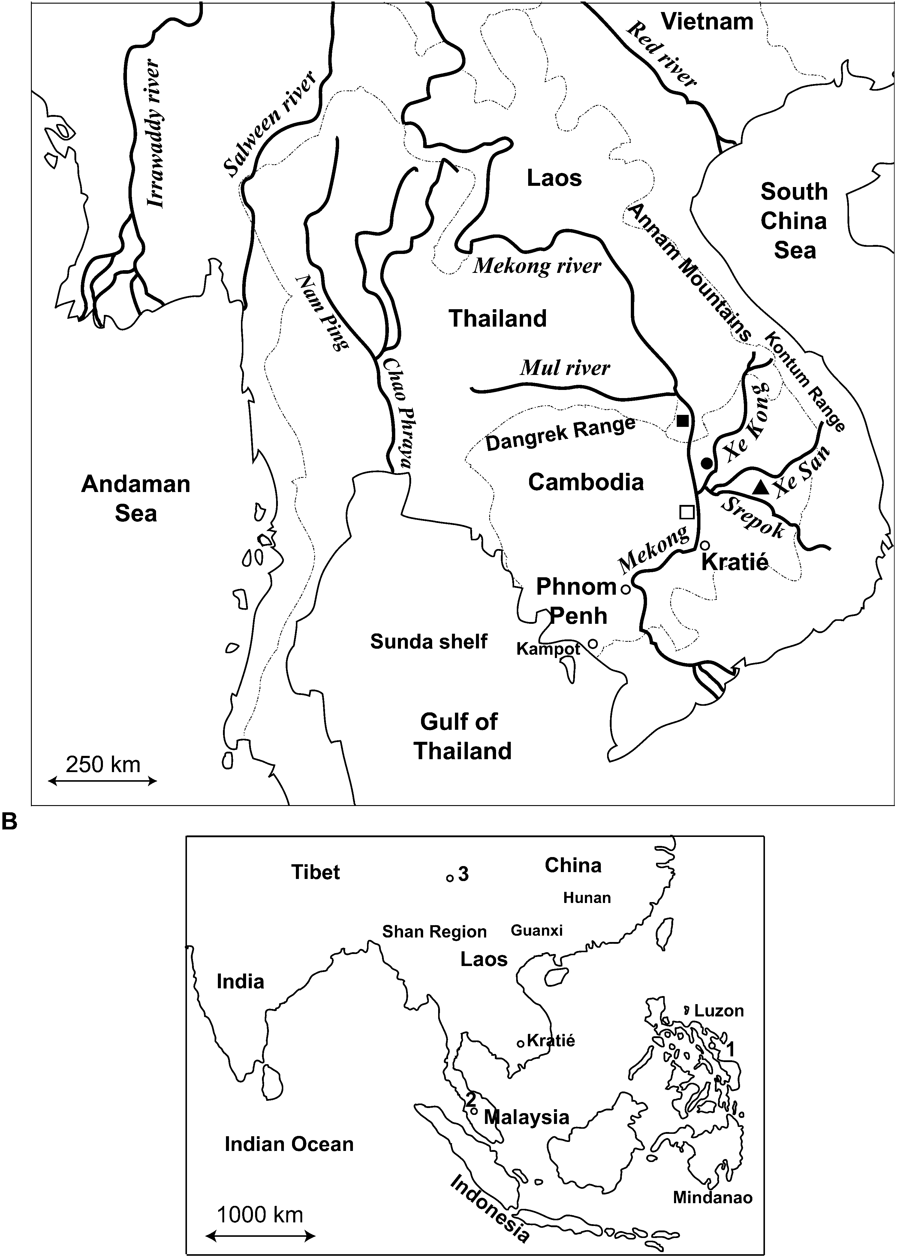 A map of the region where S. mekongi is found.